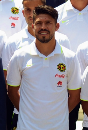 Oribe Peralta